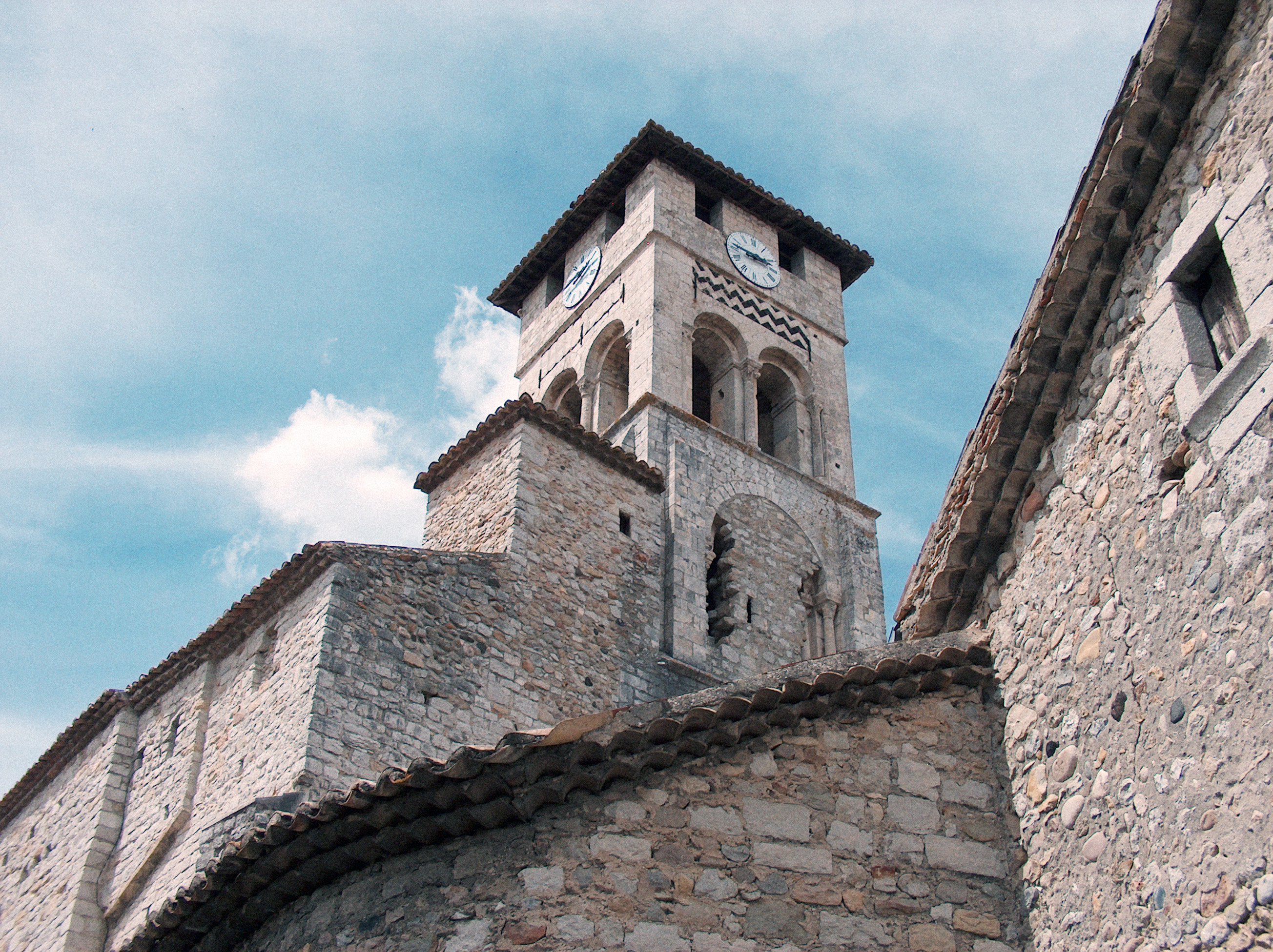 View of the church Saint-Pierre-aux-liens of Ruoms, Ardèche, Rhône-Alpes, France.